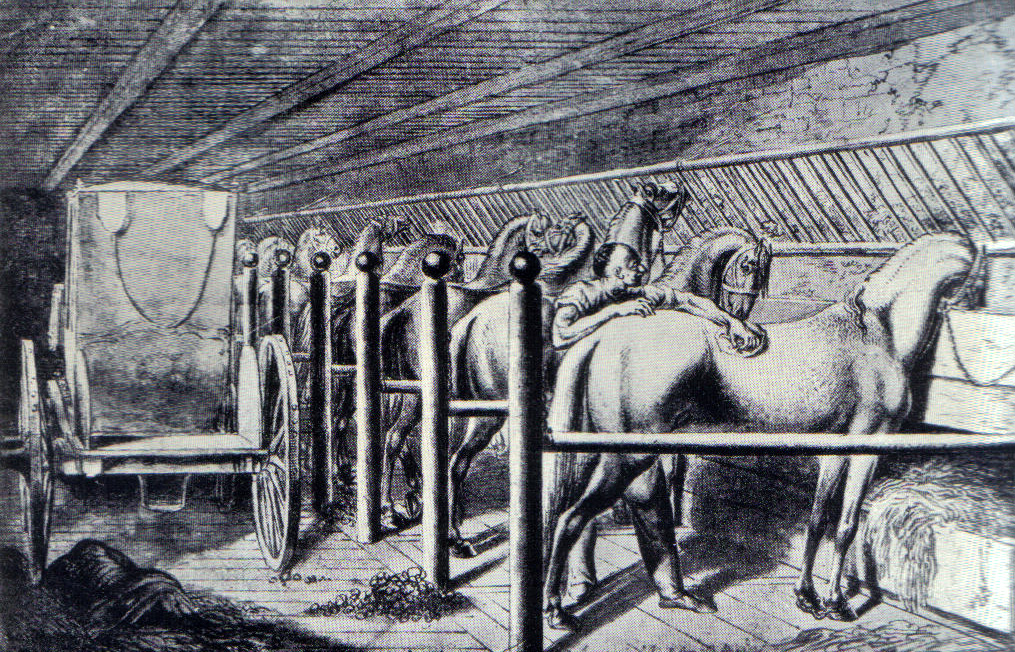 Drawing by Daniel Chodowiecki, 1773.